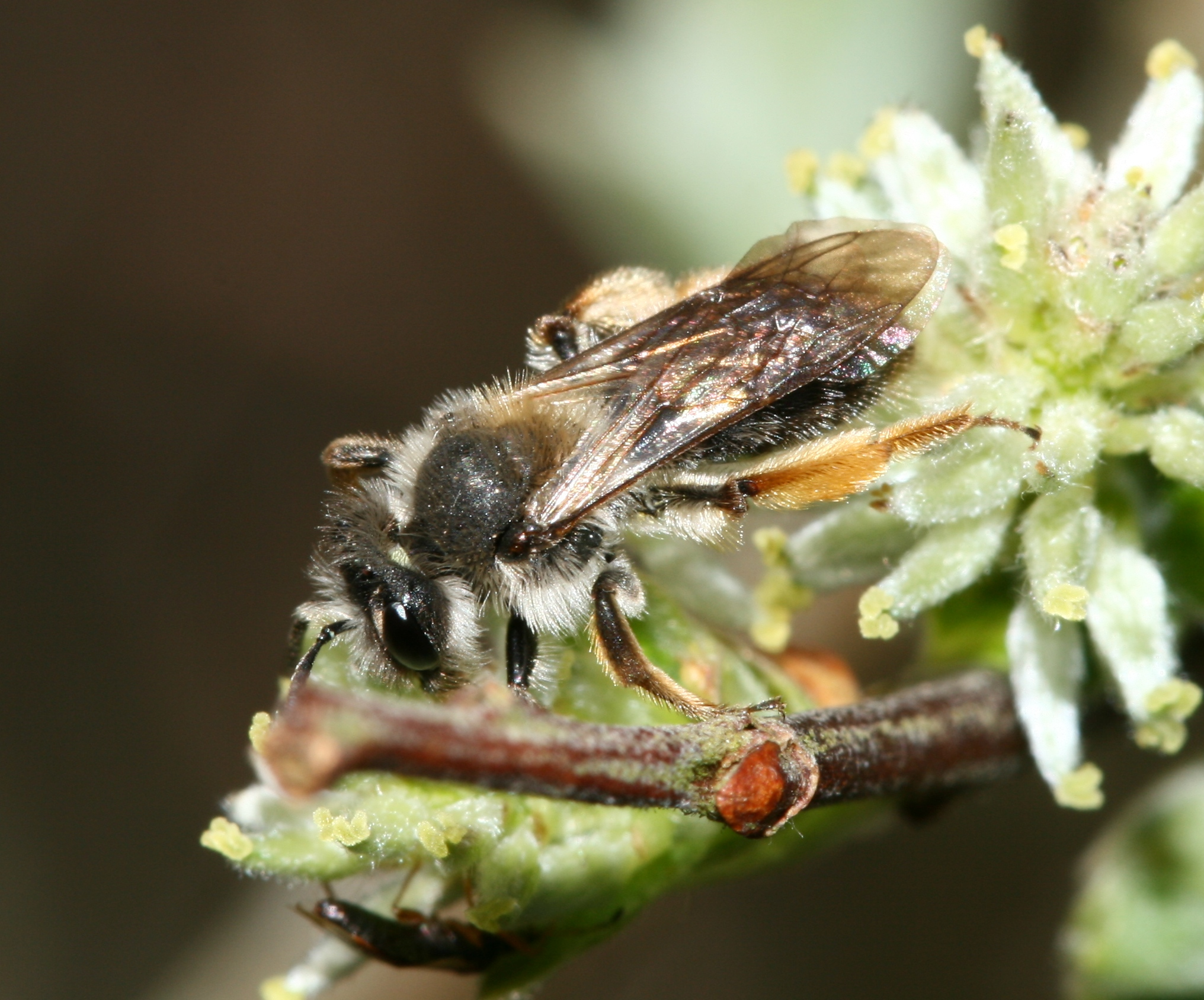 Armet Forest, Berwickshire, Scotland NT448567